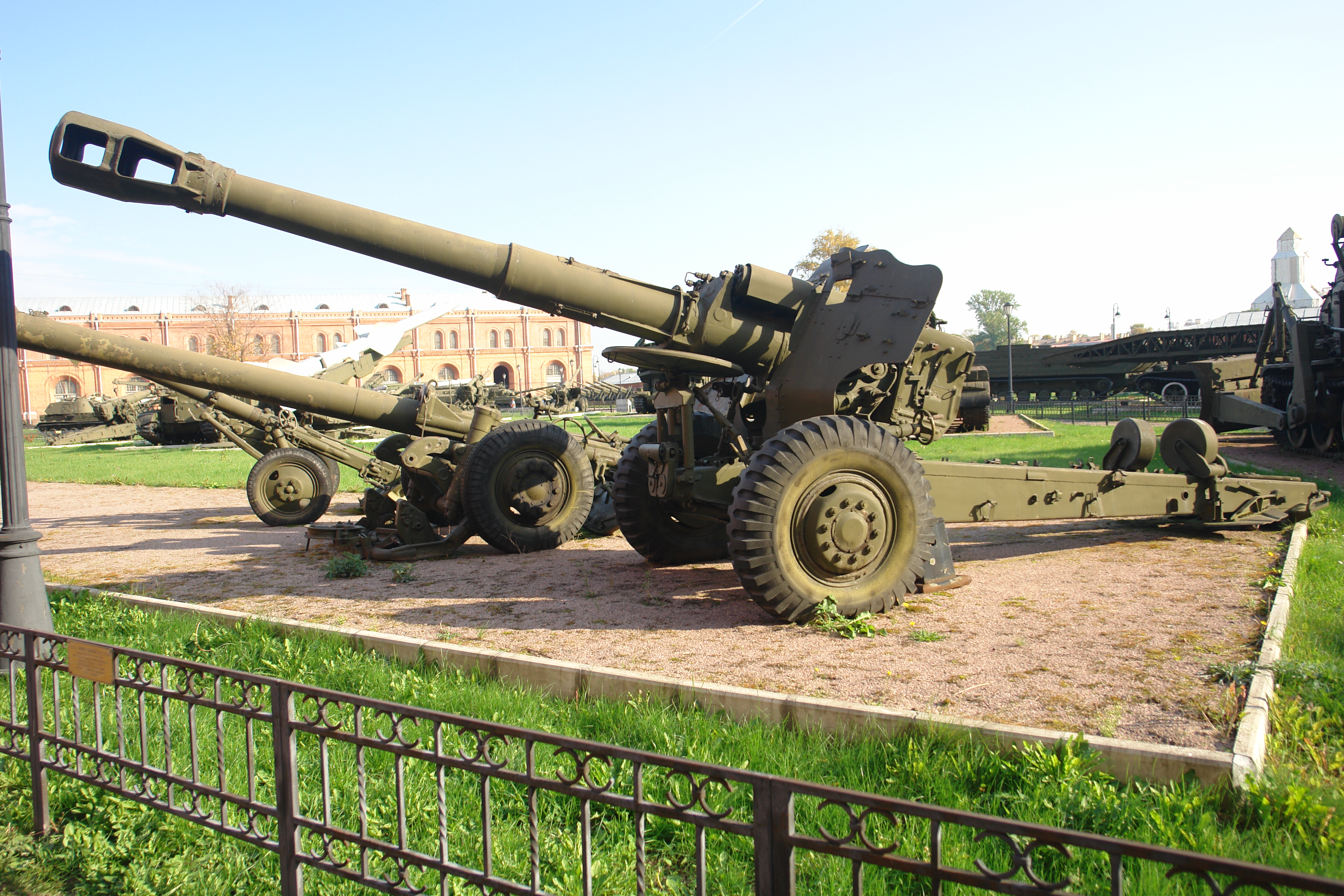 D-20, 152mm howitzer.